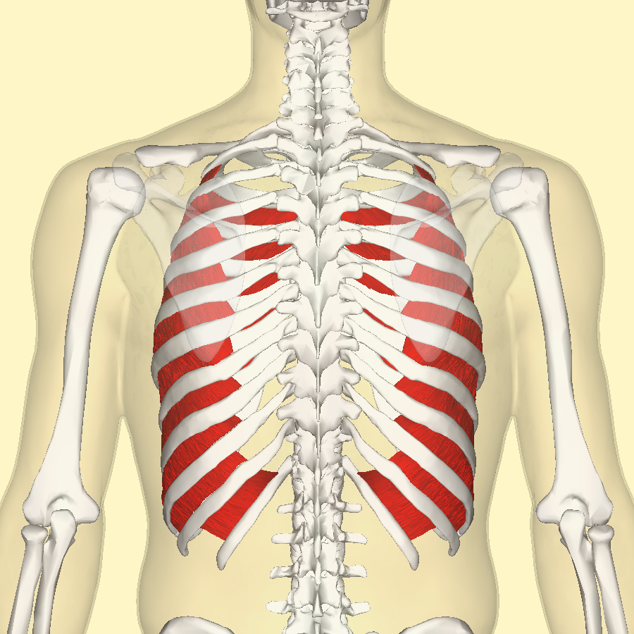 Internal intercostal muscles (shown in red).